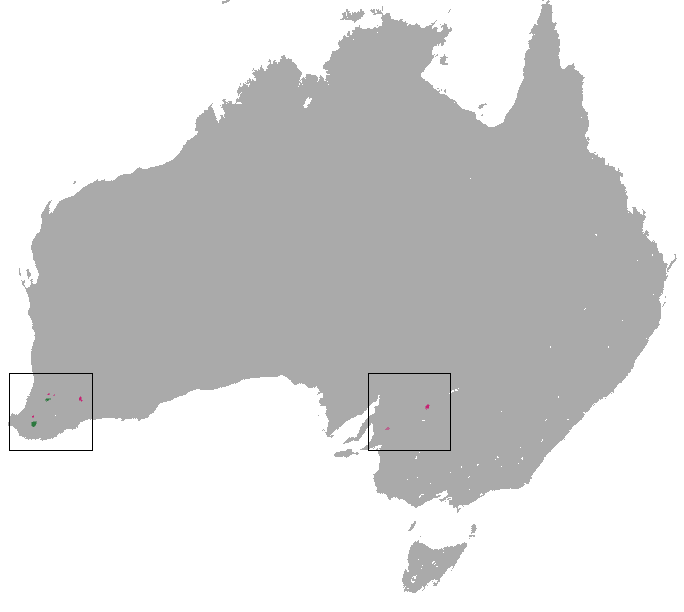 Numbat (Myrmecobius fasciatus) range (green — native, pink — reintroduced)